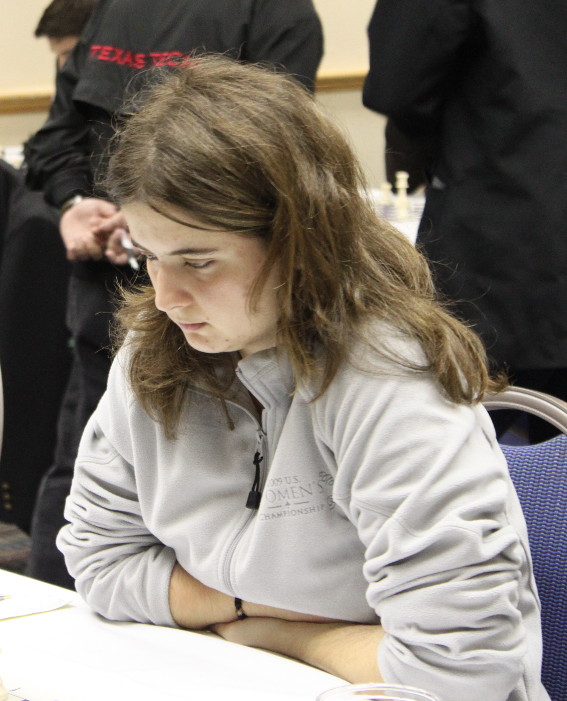 WGM Sabina Francesca Foisor at the Pan-Am Intercollegiate, South Padre Island, Dec 2009.